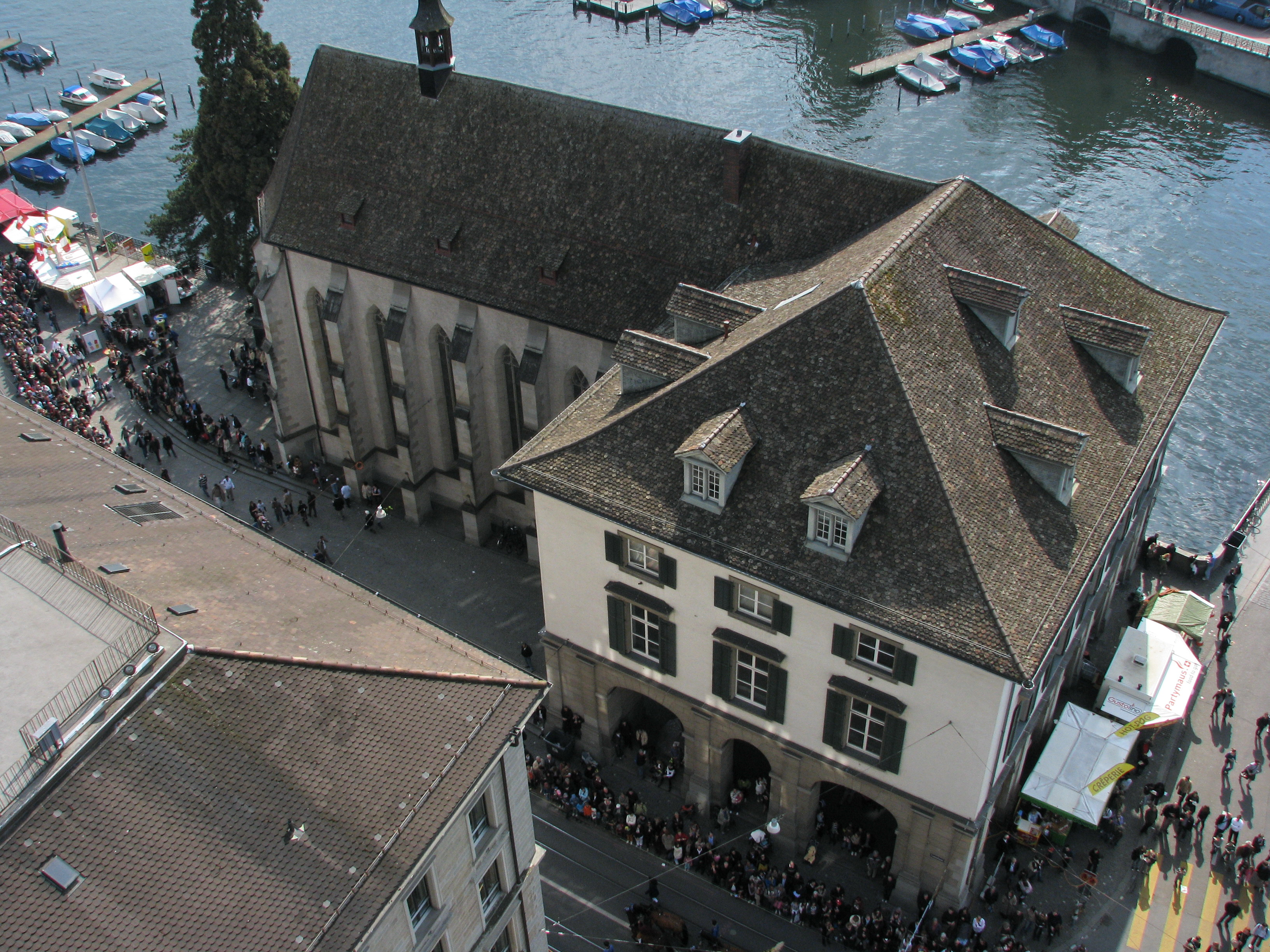 Wasserkirche respectively Helmhaus and Limmat in Zürich (Switzerland) as seen from Grossmünster's Karlsturm